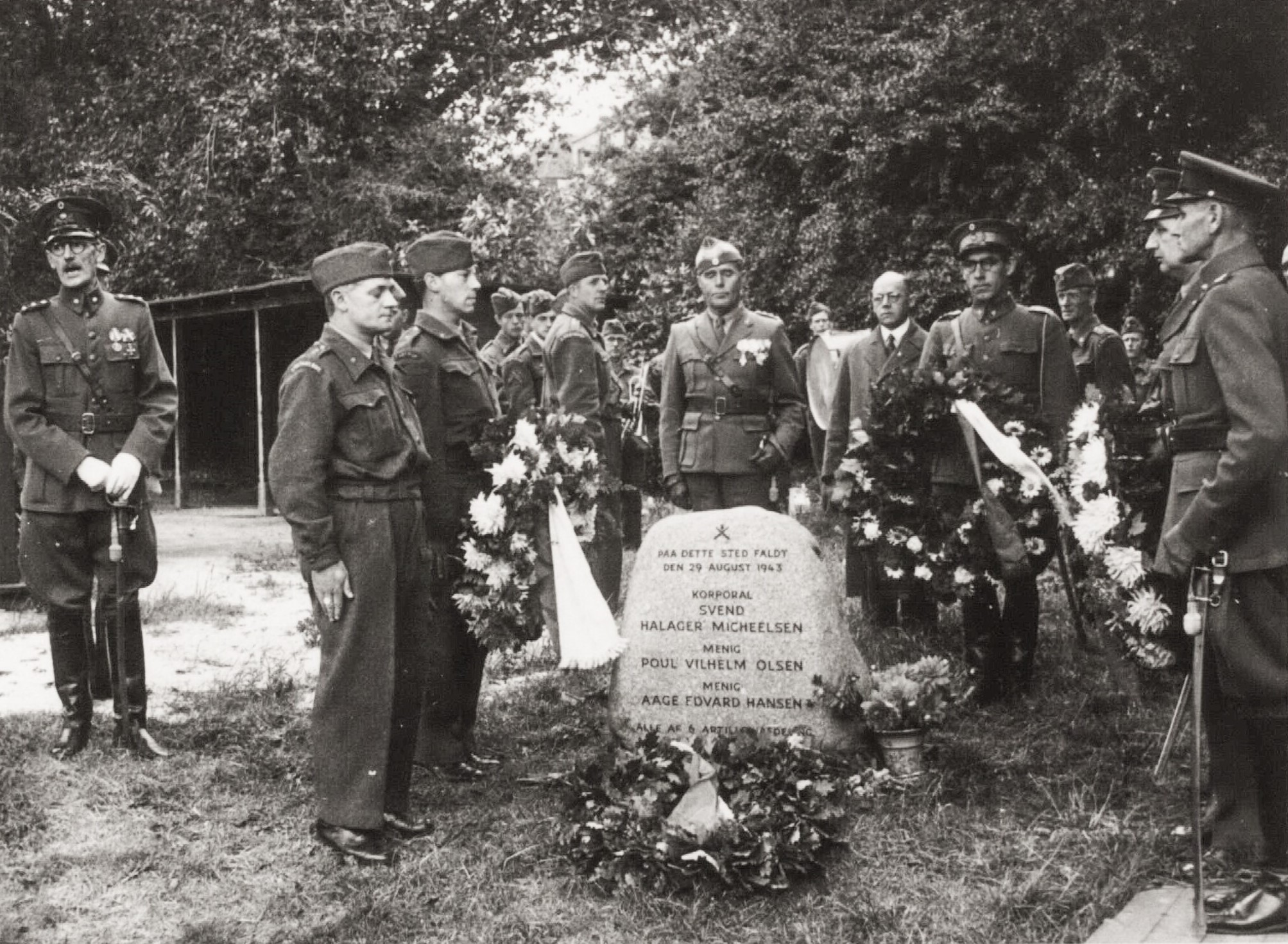 Inauguration of a memorial at Ballonparken, Copenhagen on 29 August 1946, for the three Danish soldiers who were killed in action on 29 August 1943: Aage Edvard Hansen, Svend Halager Michelsen, and Poul Vilhelm Olsen